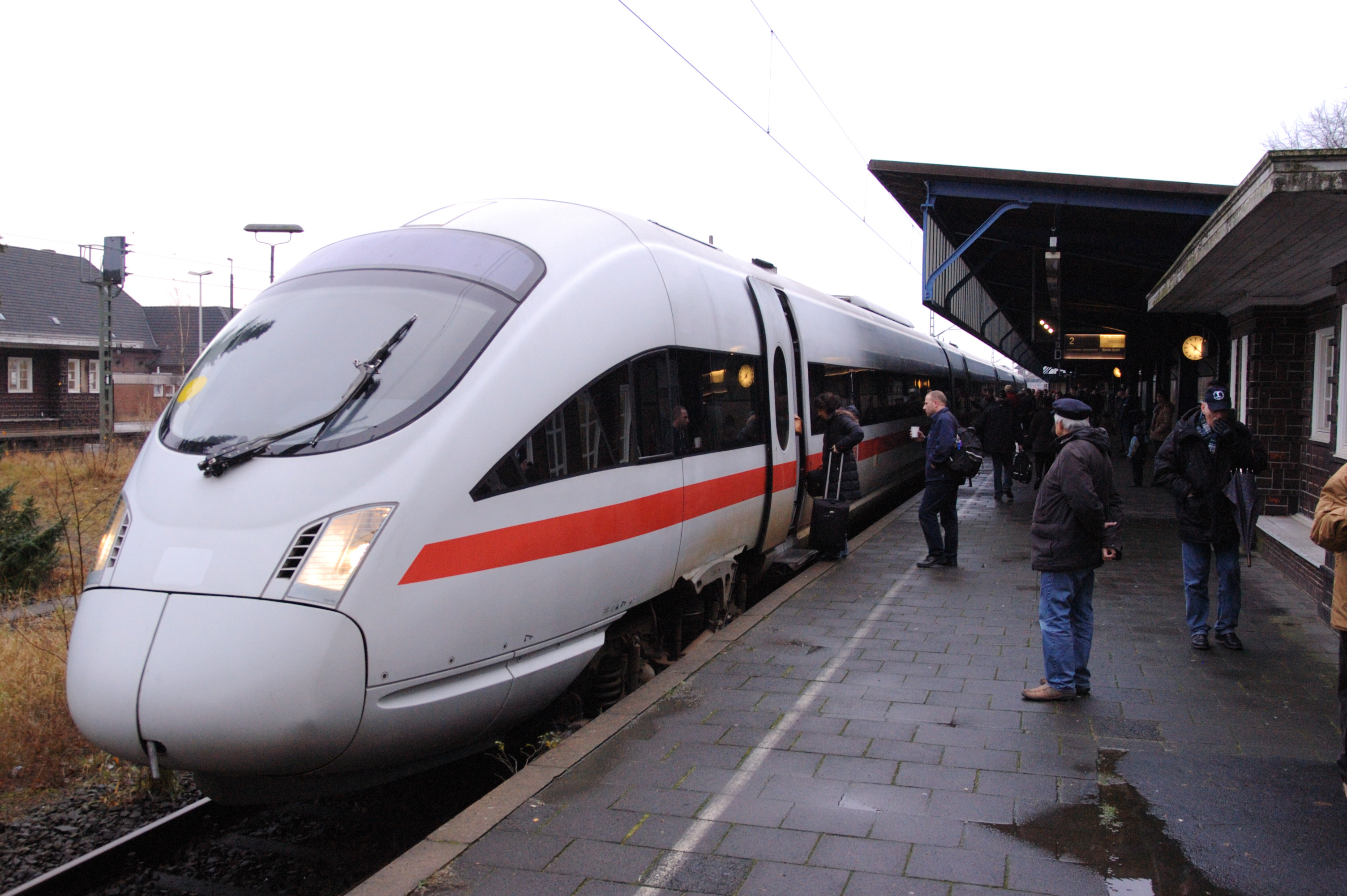 The first Inter City Express (ICE) arrives Flensburg (Århus-Berlin), 9 December 2007, 10:21